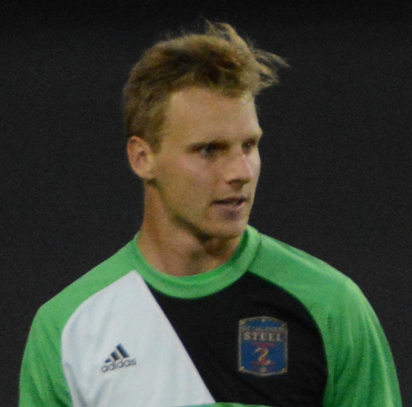 Jake McGuire Taken during a match between FC Cincinnati and Bethlehem Steel FC at Nippert Stadium in Cincinnati, USA on May 20, 2017.